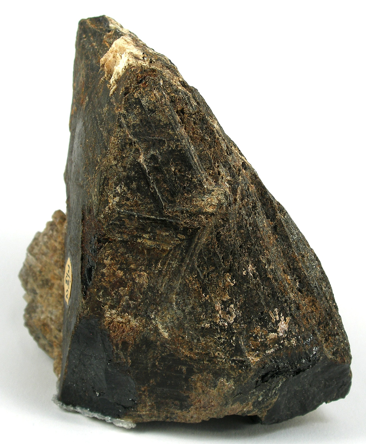 Gadolinite-(Ce) Locality: Tuftane (Tuftan; Tuptane), Frikstad (Frigstad), Iveland, Aust-Agder, Norway (Locality at ) Size: small cabinet, 8.2 x 7.1 x 5.2 cm Gadolinite-(CE) A huge gadolinite crystal from one of the old classic locales for this species, and from the John Sinkankas collection. It masses 583 grams which is VERY hefty when held, and is a giant crystal - the big ones seldom maintain such sharp form. Sinkankas, a renowned author and collector, noted its value as $125 in 1968 (he purchased for a bargain price of $20 in 1965 - but that was a lot of money then, too, for an ugly rock!), and wrote that it is "Very large, sharp, and exceptional" on his original label, an index card in his hand which accompanies the piece. I purchased this directly from John at his home in San Diego in about 1998, and sold it to collector Bob Nowakowski , who had a large suite of exceptional crystals of the Rare Earth Elements species. He held it until recently.